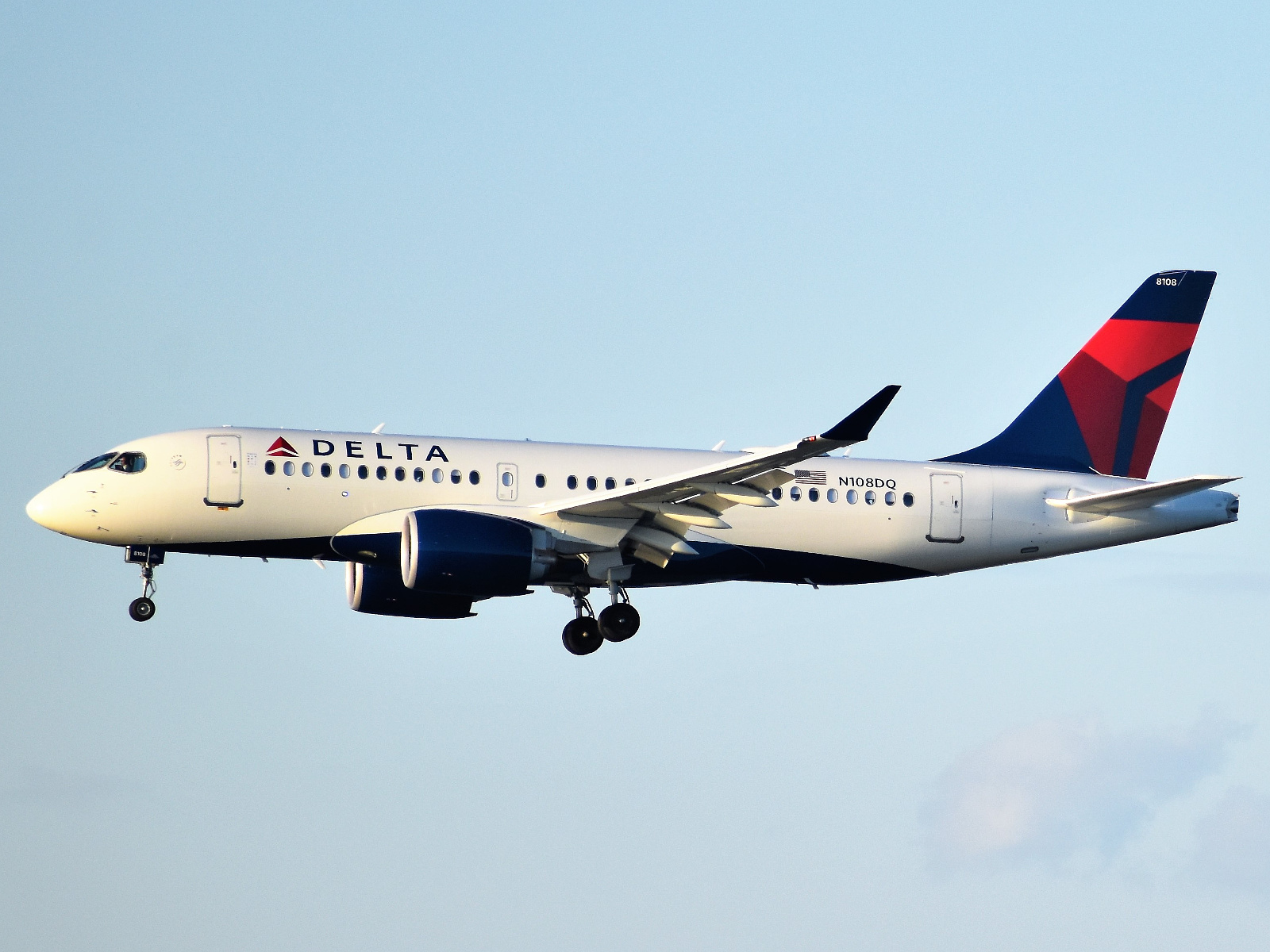 A Delta Air Lines Airbus A220-100 is on final approach to LaGuardia Airport over Flushing Bay.